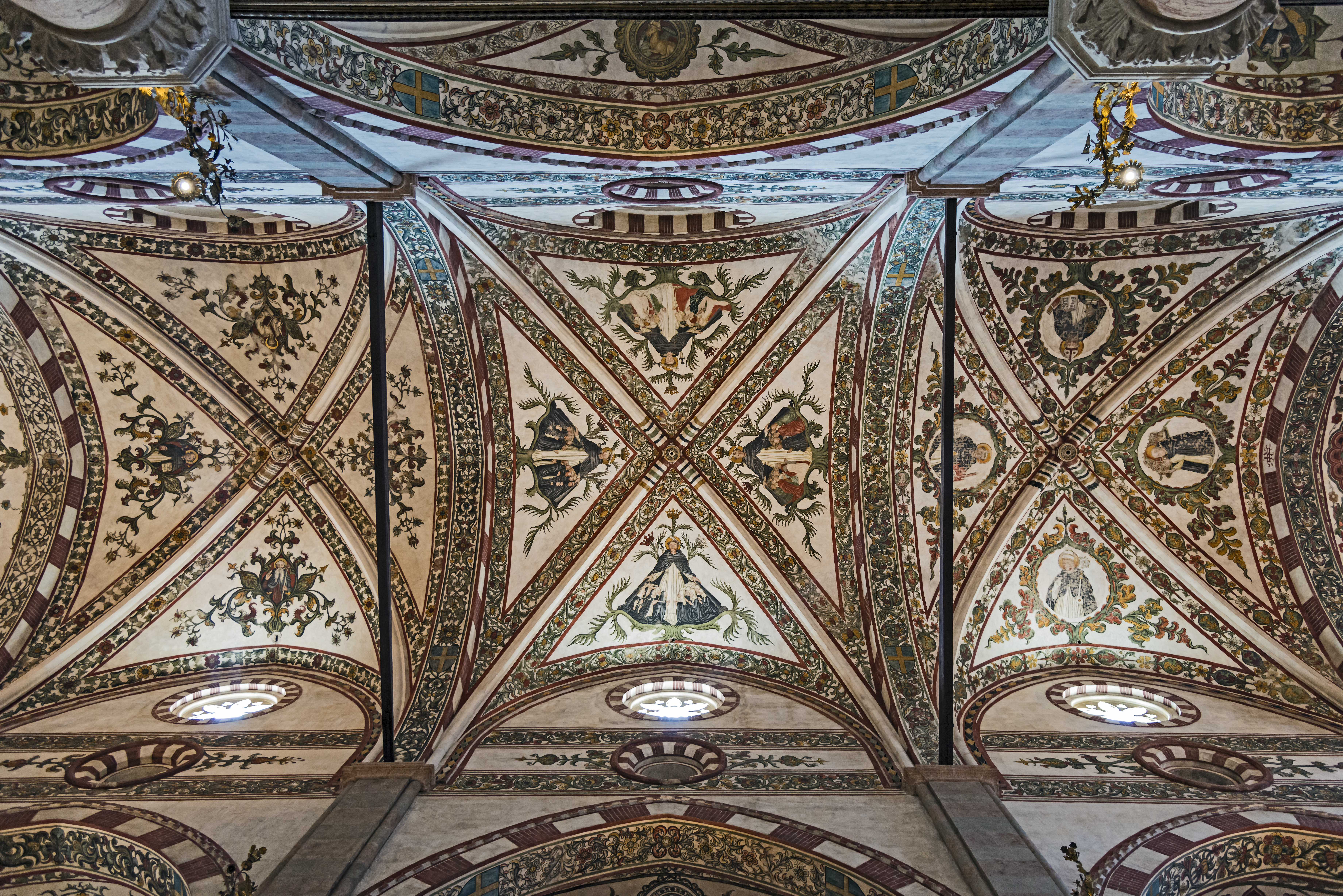 Basilica Santa Anastasia. The nave ceiling is dated 1437, it presents images Dominican friars here St. Peter of Verona.